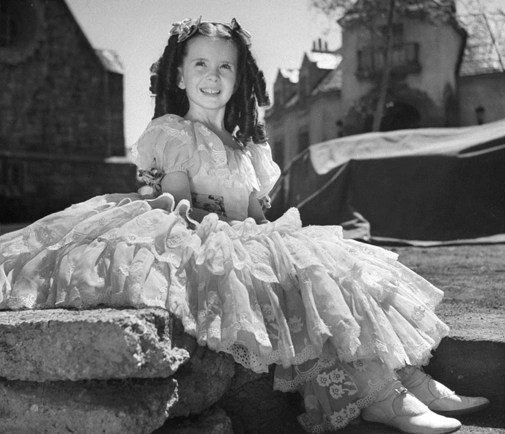 Promotional photograph of actress Margaret O'Brien in costume for the 1943 film Jane Eyre